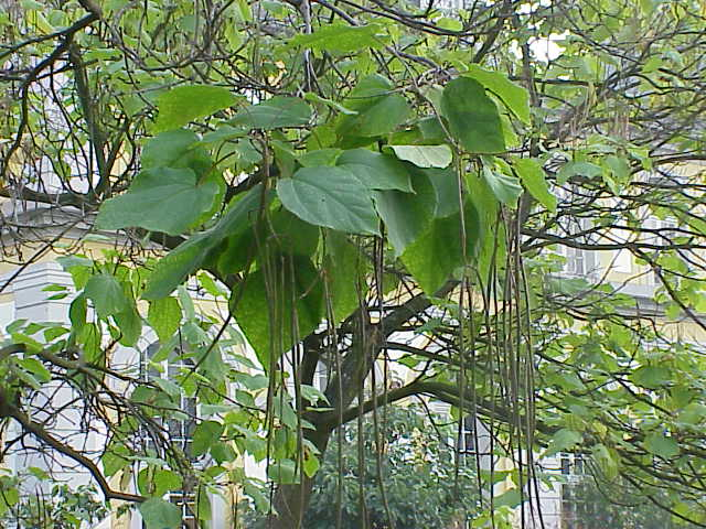 Species: Catalpa bignonioides Family: Bignoniaceae Image No. 2